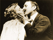 Film still of The Kiss from 1896.